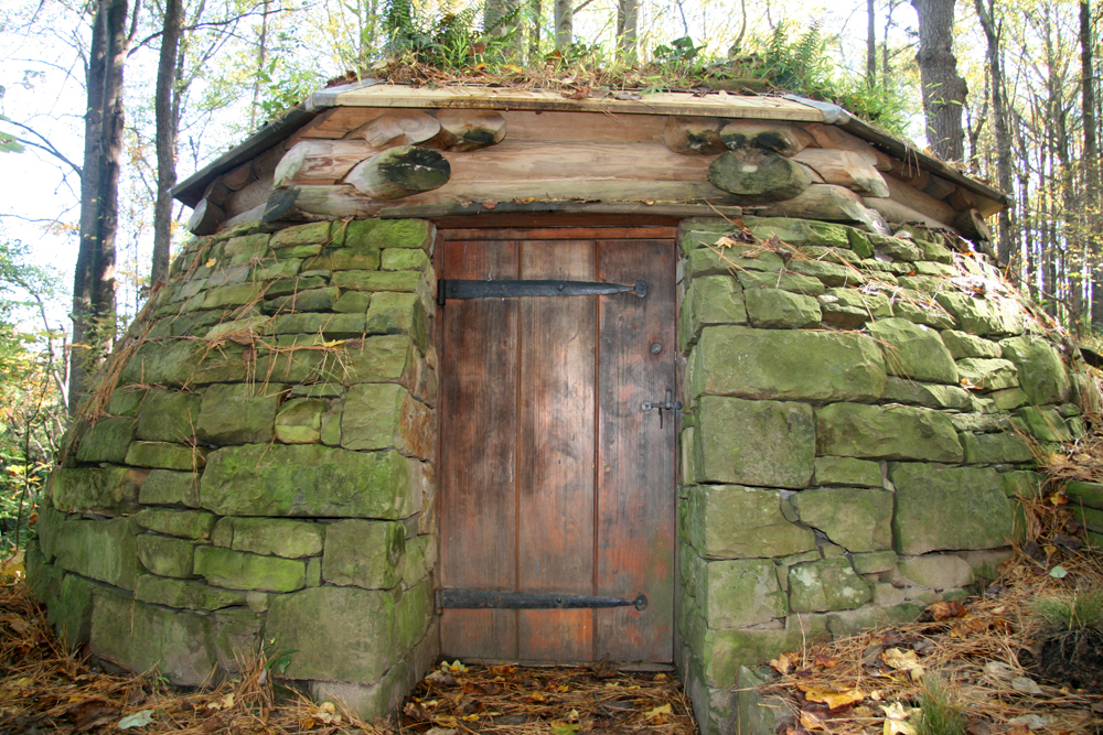 Cloud Chamber for the Trees and Sky is an outdoor exhibit by Chris Drury located in the museum park of the North Carolina Museum of Art.